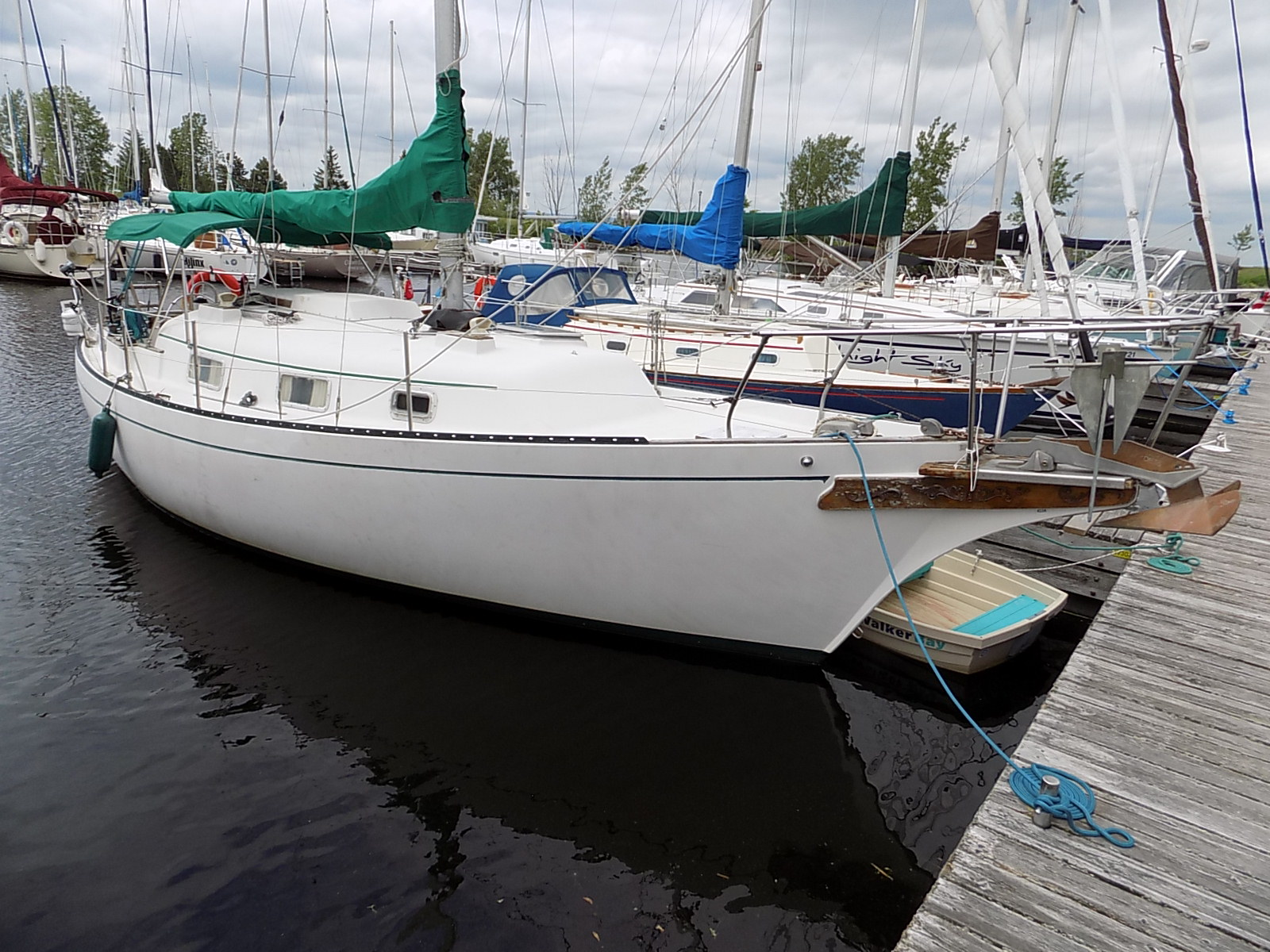 Bayfield 32 sailboat named Spindrift.